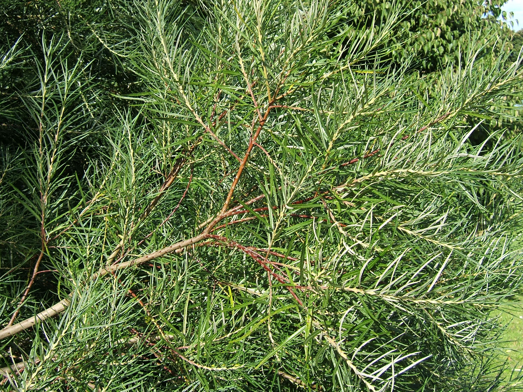 Salix elaeagnos, cultivated, Newcastle, UK